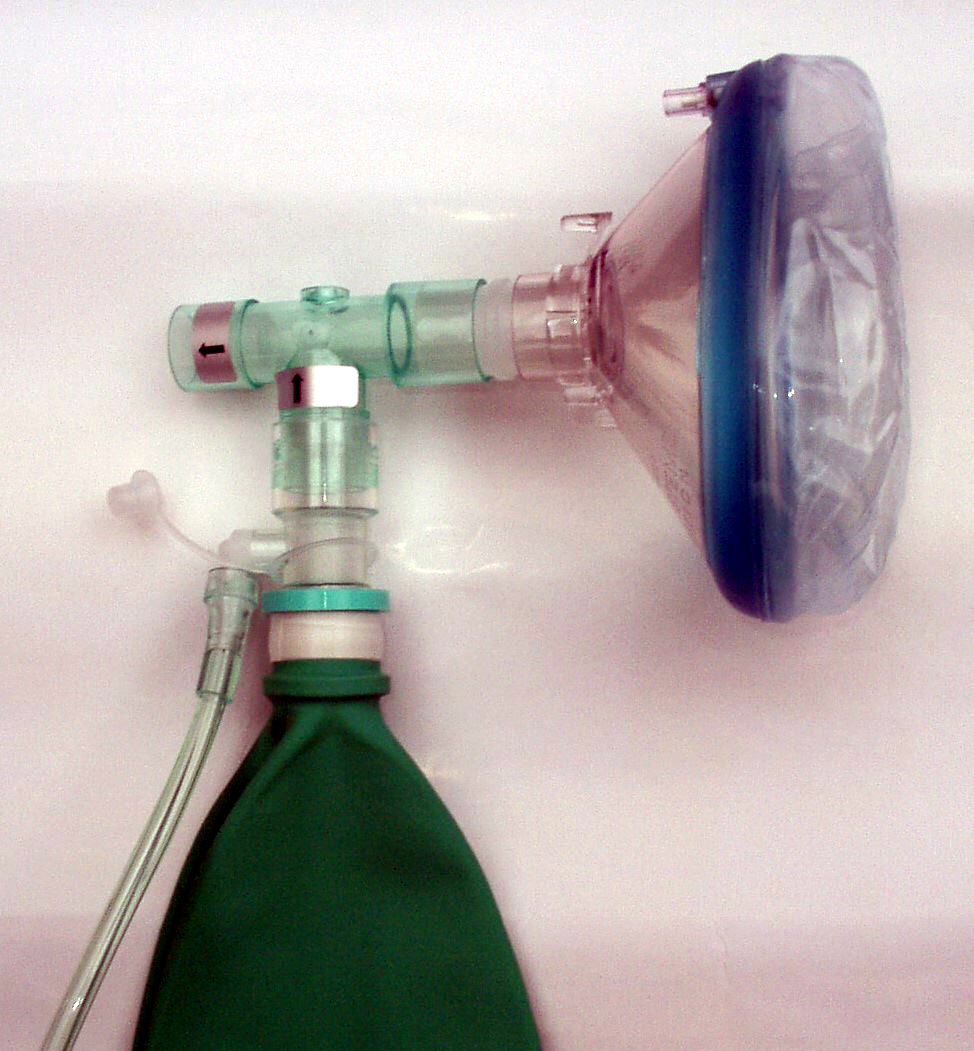 Non re-breather oxygen mask with reservoir for the acute treatment of Cluster Headache